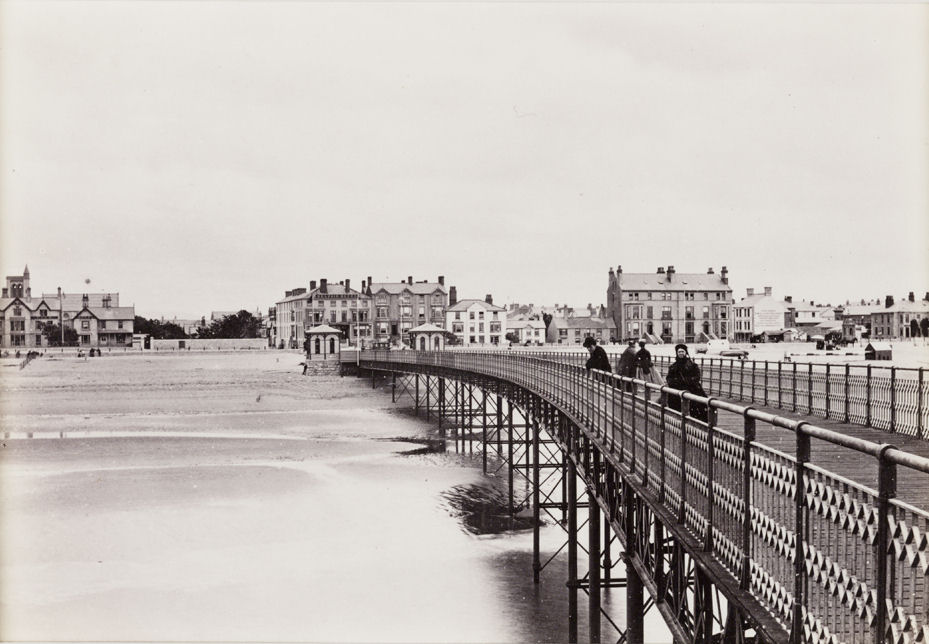 Creator: Francis Bedford (1816 - 1894) Date: c. 1880 Format: Albumen print Collection: National Media Museum Collection Inventory no: 1990-5037_B1_0348